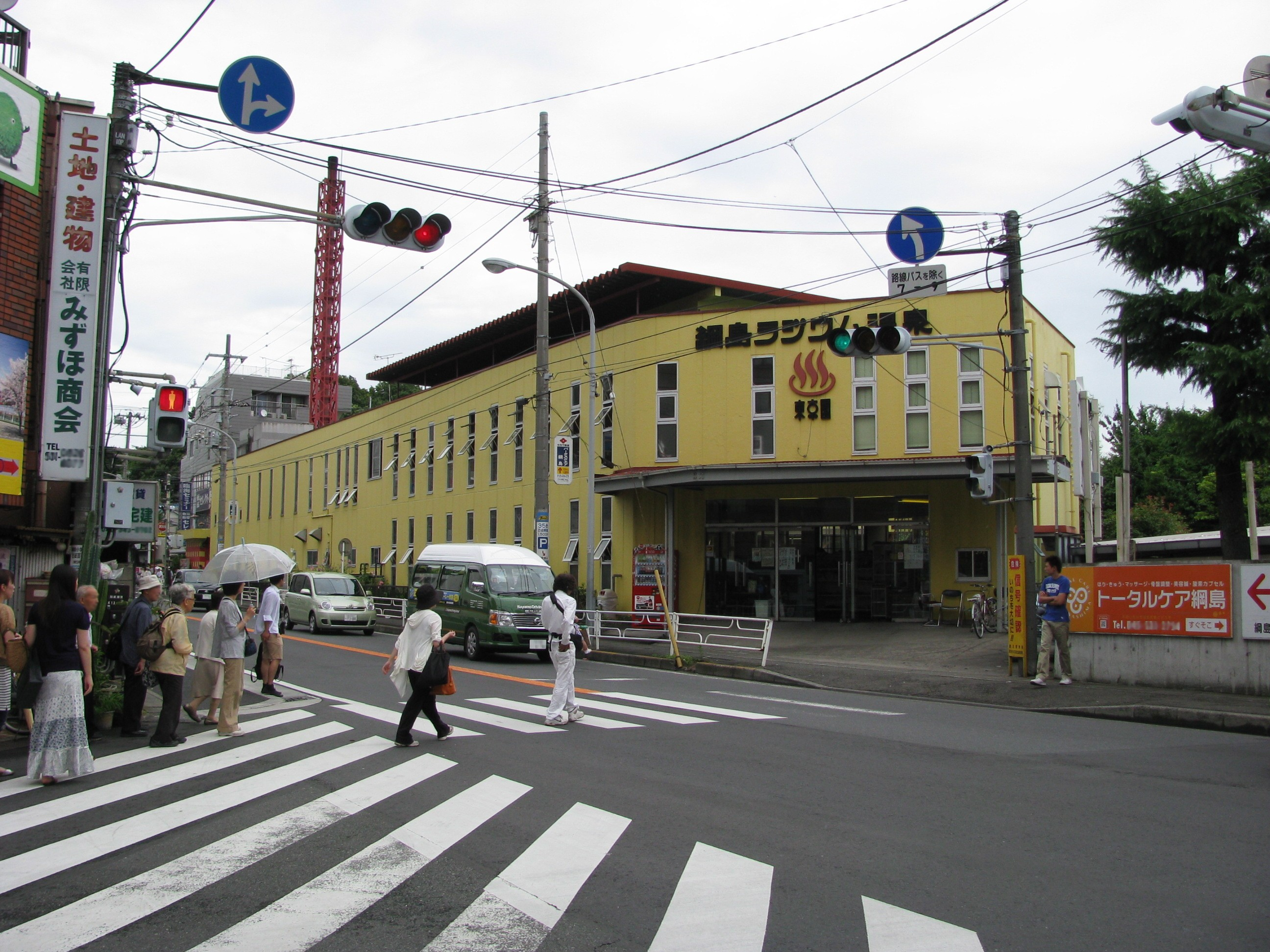 This house is the Tokyo-en of Tsunashima hot spring. This place is the east side of Tsunashima Station in Tsunashima, Kōhoku, Yokohama, Kanagawa, Japan.